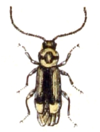 Malthinus biguttatus, from Calwer's Käferbuch, Table 27, Picture 17. Taxonomy was updated to 2008, using mostly the sites Fauna Europaea and BioLib. Please contact Sarefo if the determination is wrong!